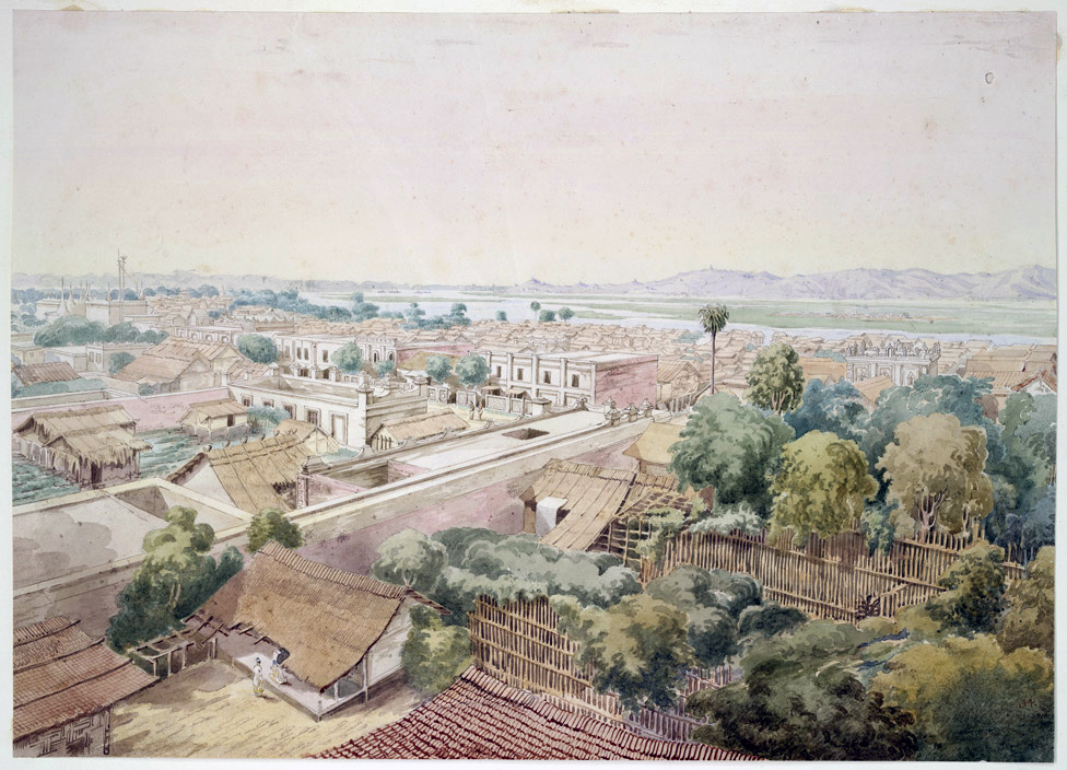 Watercolour in pen and ink of a panoramic view of Amarapura looking towards the south-west. A tour with Mr. Spears through the city in search of a favorable elevation from whence to secure a panoramic view of the capital, resulted in selection of the residence of General D’Orgoni, who politely afforded every facility for the object. This house is situated not within the enclosed city, but in that part or street of the suburb which lies westerly between the city wall and the river, called the Yattan...The ornamented brick building on the right is a Mohummudan [Muslim] mosque, a description of edifice of which there are many exceedingly pretty specimens in various parts of Umeerapoora. The ordinary brick houses observed in the street running through the centre of this view, are occupied - some by Burmese, and others by native-born Mohummudans...The tall posts observable near a group of Pagodas on the left, and which are surmounted by the ‘Henza’, or sacred goose, peacock, duck, or kite, (for to which of these birds it is really a-kin seems matter of some doubt) are termed ‘Tagoon-dyn’. The erection of these posts is considered an act of devotional piety. Upon the opposite or western shore are seen the Sagàin hills, studded throughout their length with white pagodas...Between Sagàin and the opposite shore may be observed the Mission steamers at anchor; it having been necessary, consequent on the rapid falling of the river, to send them down below the city to a sufficiently deep and secure channel.